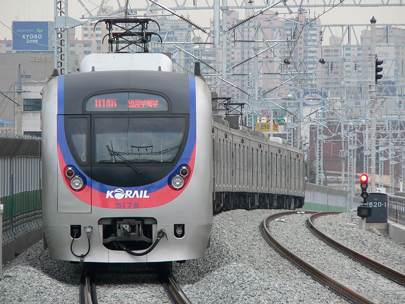 KORAIL 311000 series (formerly 5000 series) EMU (8th batch)